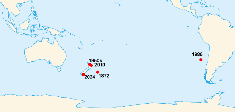 Localities and dates of the known Mesoplodon traversii (=Mesoplodon bahamondi) specimens